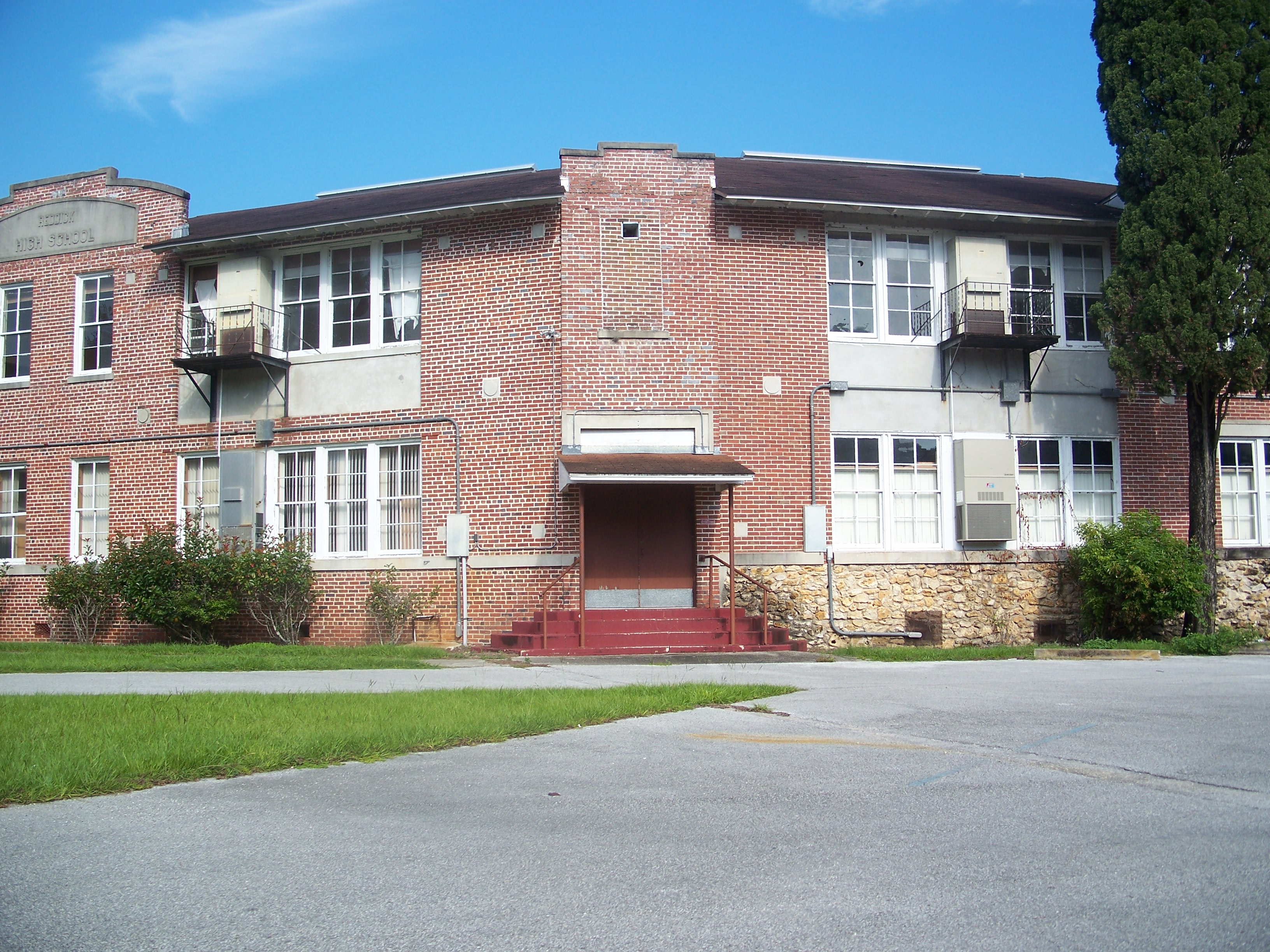 Reddick, Florida: Old Reddick Auditorium, part of the old Reddick High School. At least part of it is being used as an Interfaith thrift store.